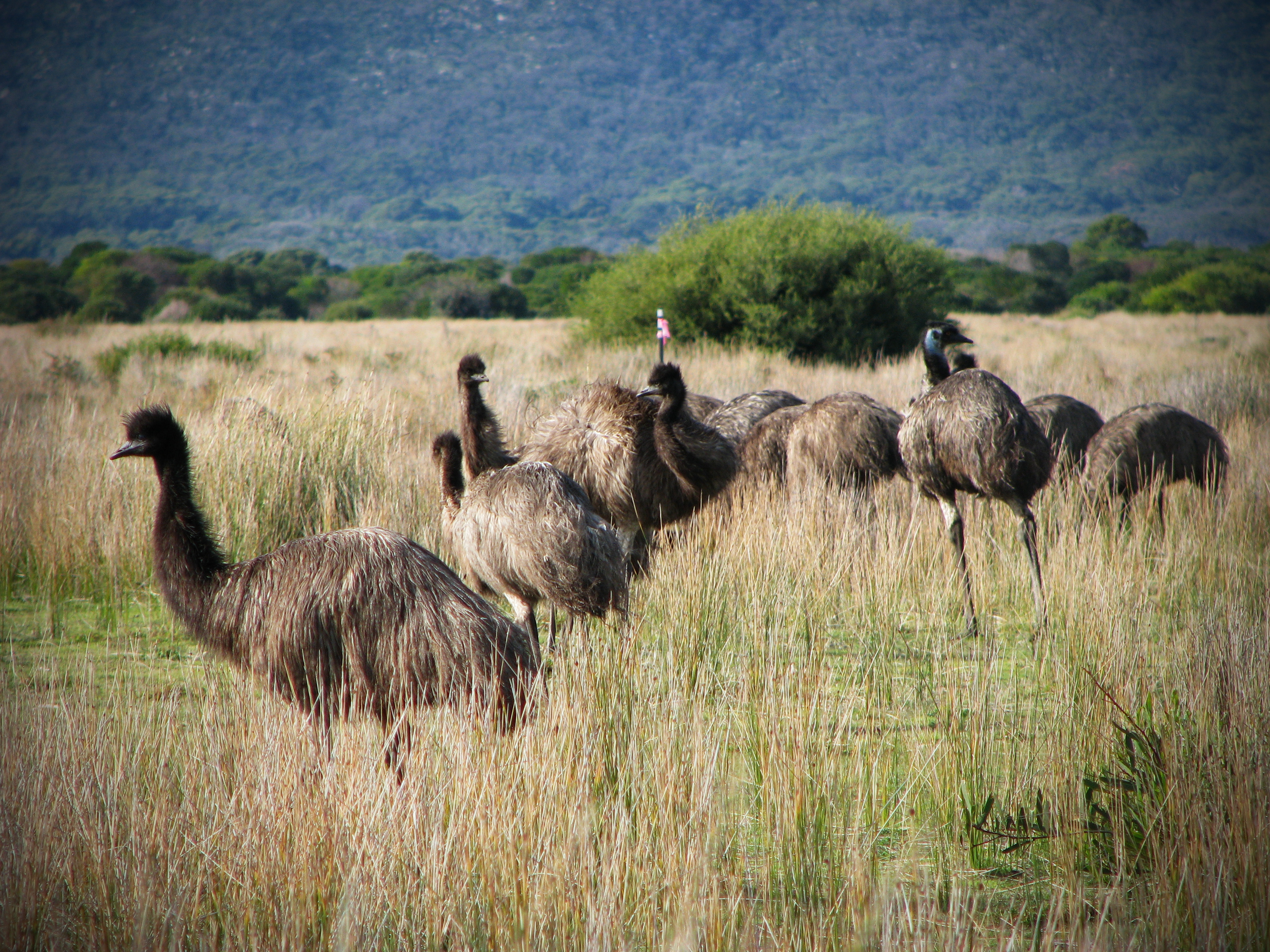 Emus, Wilsons Promontory National Park